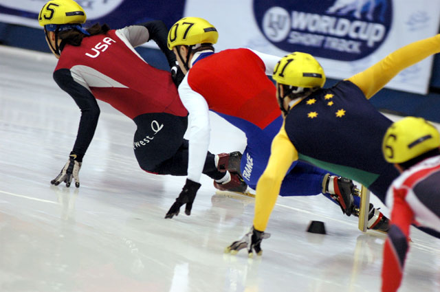 Photo of 500 metres short track heat at the 2004 World Cup in Saguenay. Apolo Ohno (USA) leads Thibaut Fauconnet (FRA), Mark McNee (AUS) and Sergei Prankevitch (RUS)